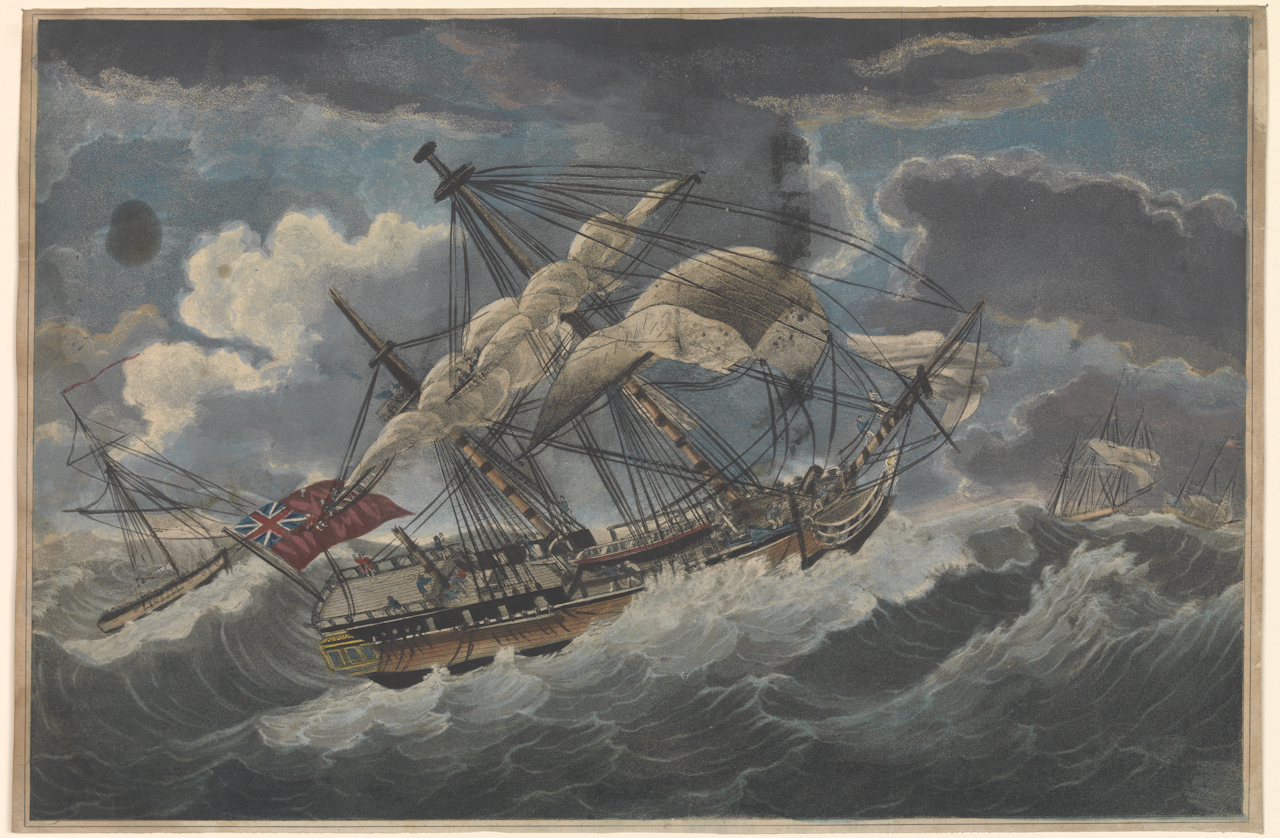 Calypso, PW7972. Hand-coloured. Calypso was run down and sunk during a gale in the Atlantic by a merchantman she was escorting in convoy, while returning from Jamaica on 30th July 1803. The Calypso is here shown in heavy seas together with other vessels, although it is unclear whether or not this is a depiction of her final moments.